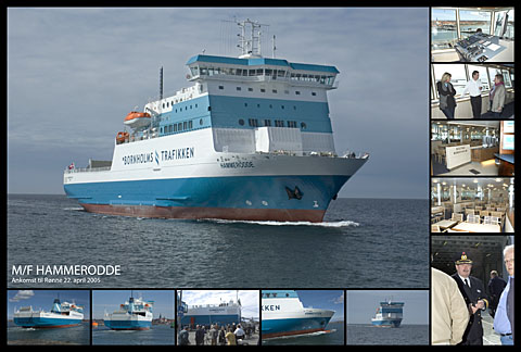 Hammerodde Postcard - IMO: 9323699 - Call Sign: OYAX